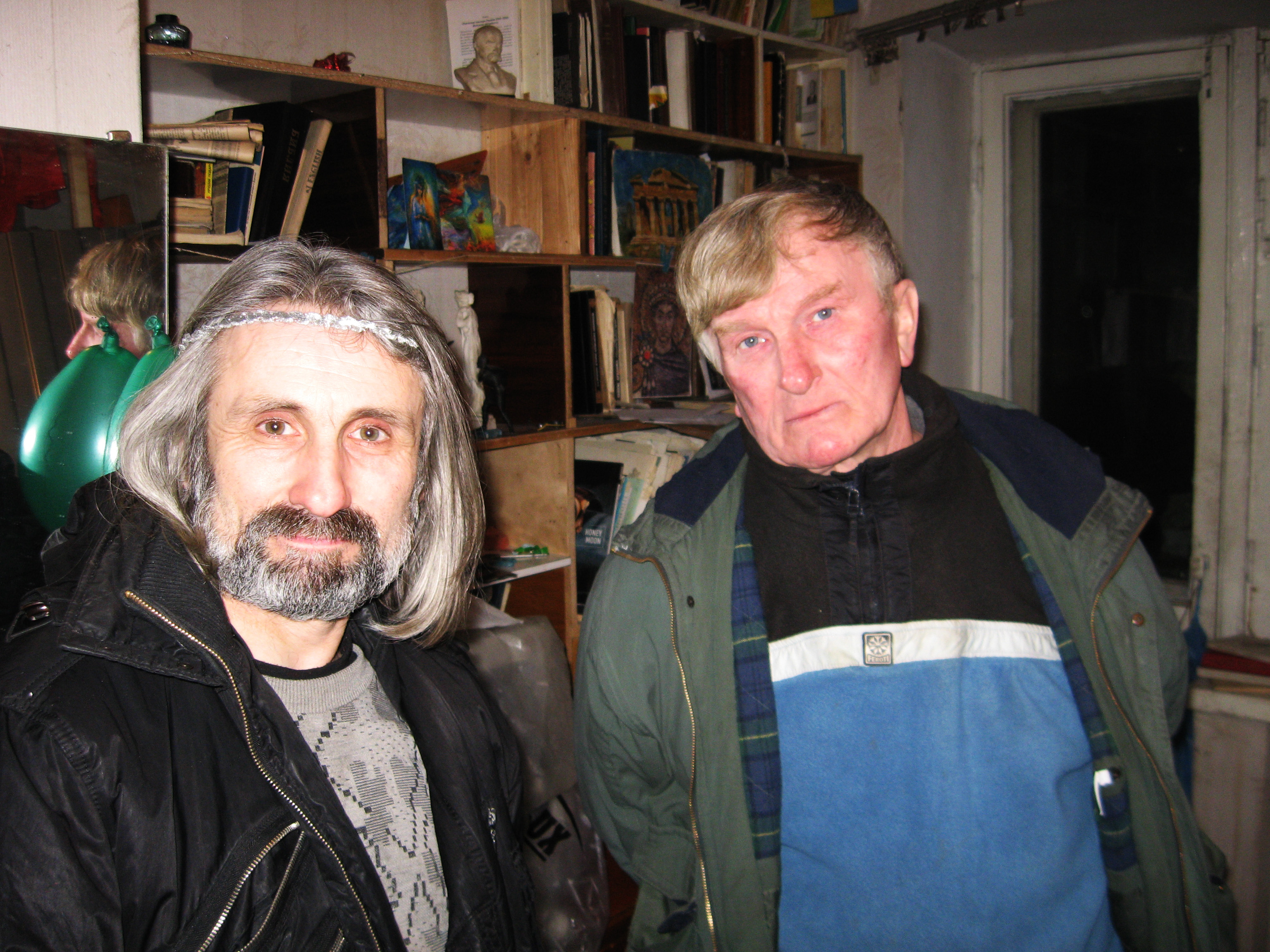 Микола Марковський із художником Олександром Ходацьким